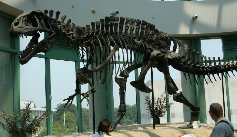 Mounted skeleton of Acrocanthosaurus specimen NCSM 14345 at North Carolina Museum of Natural Sciences